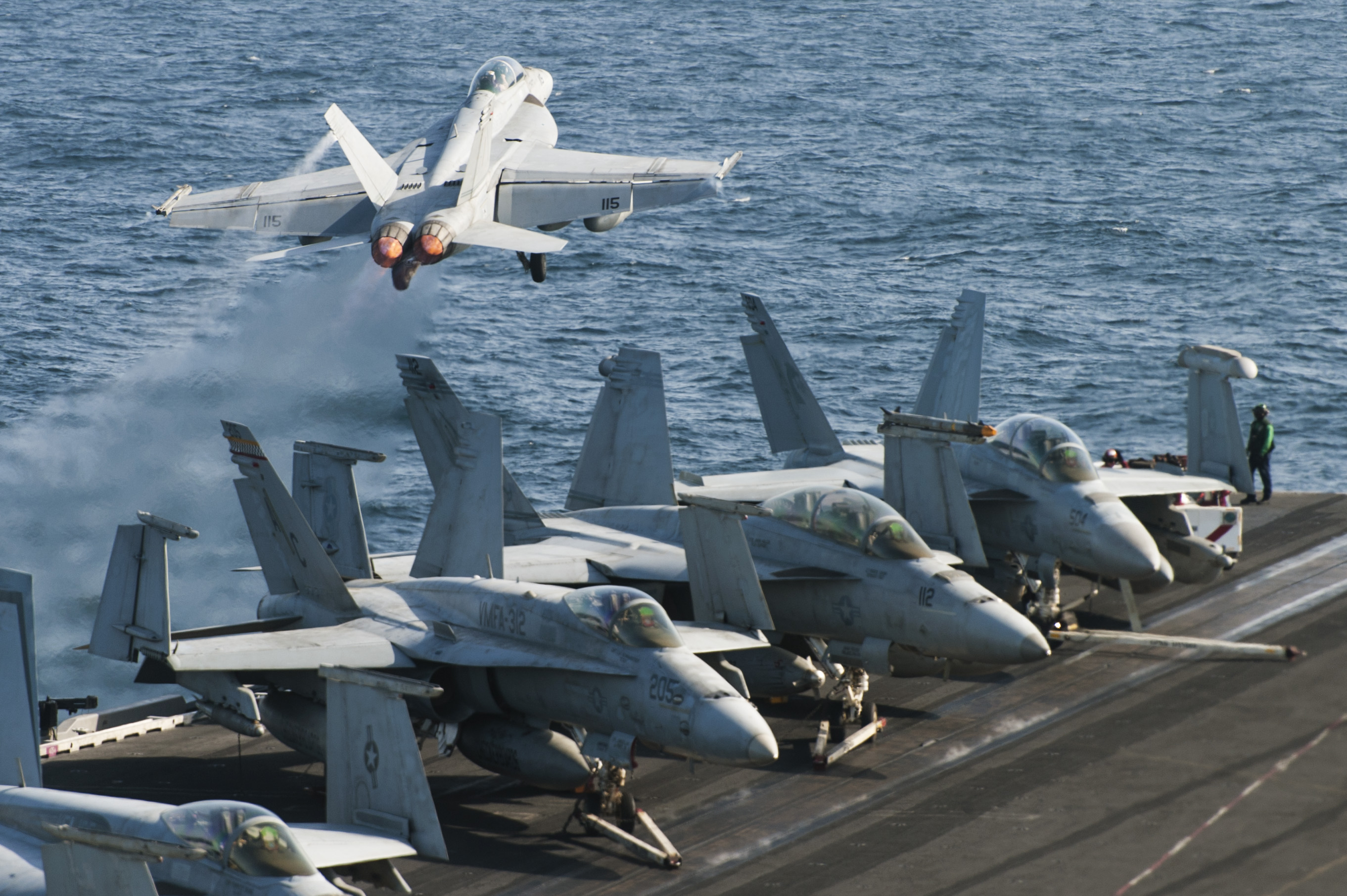 GULF OF OMAN (Feb. 21, 2014) An F/A-18F Super Hornet assigned to the “Swordsmen” of Strike Fighter Squadron (VFA) 32 launches from the aircraft carrier USS Harry S. Truman (CVN 75). Harry S. Truman, flagship for the Harry S. Truman Carrier Strike Group, is deployed to the U.S. 5th Fleet area of responsibility conducting maritime security operations, supporting theater security cooperation efforts and supporting Operation Enduring Freedom. (U.S. Navy photo by Mass Communication Specialist 3rd Class Karl Anderson/Released) 140221-N-ZG705-065 Join the conversation navylive.dodlive.mil